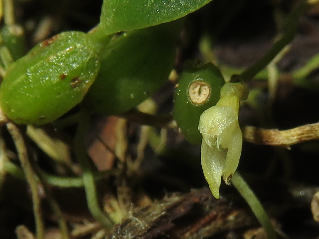 Bulbophyllum inconspicuum, Hama-dori area, Fukushima pref., Japan